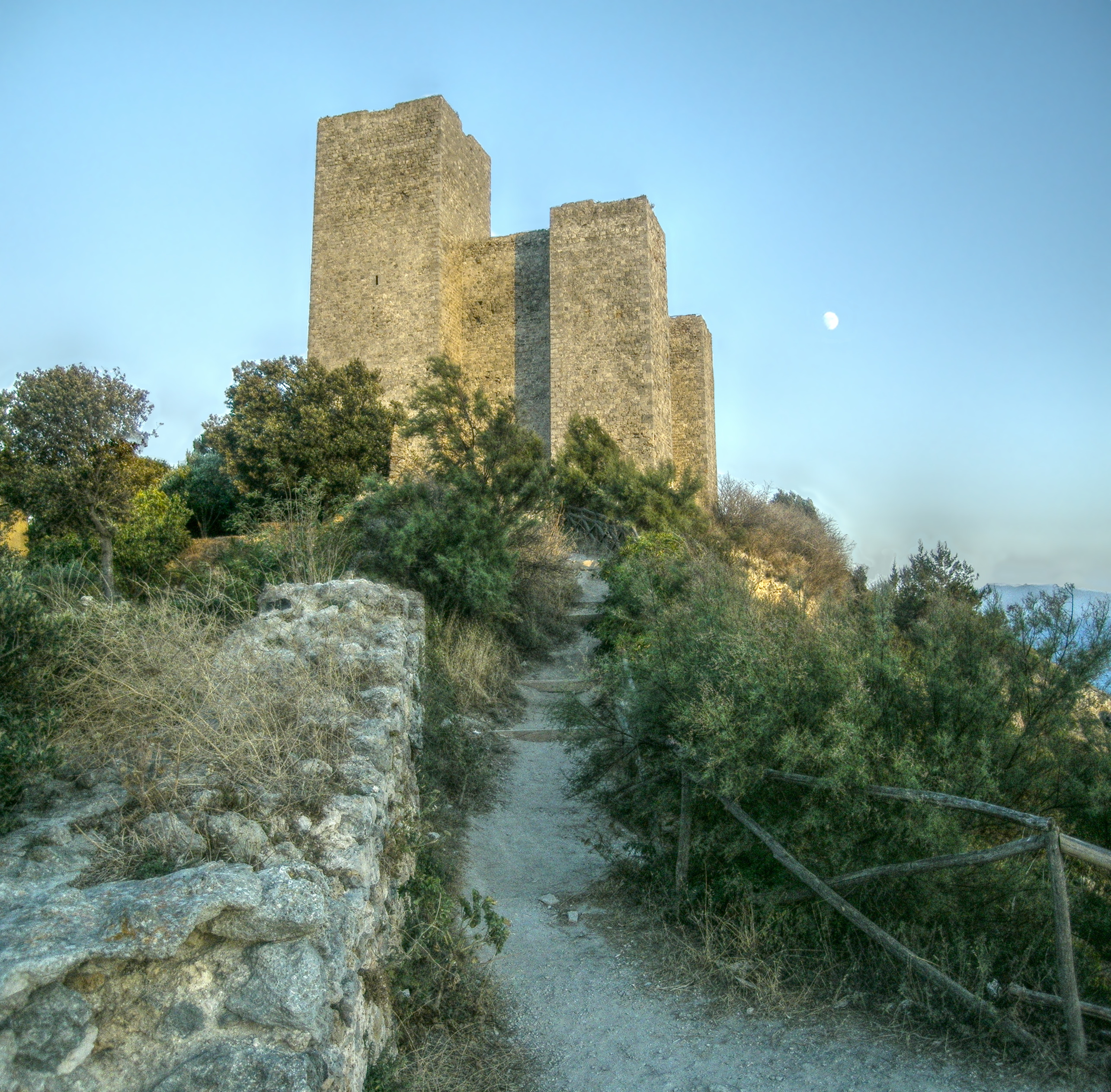 view of the Rocca adlobrandesca (castle) of Talamone, a small town in southern Tuscany (Italy). I took it at sunset time